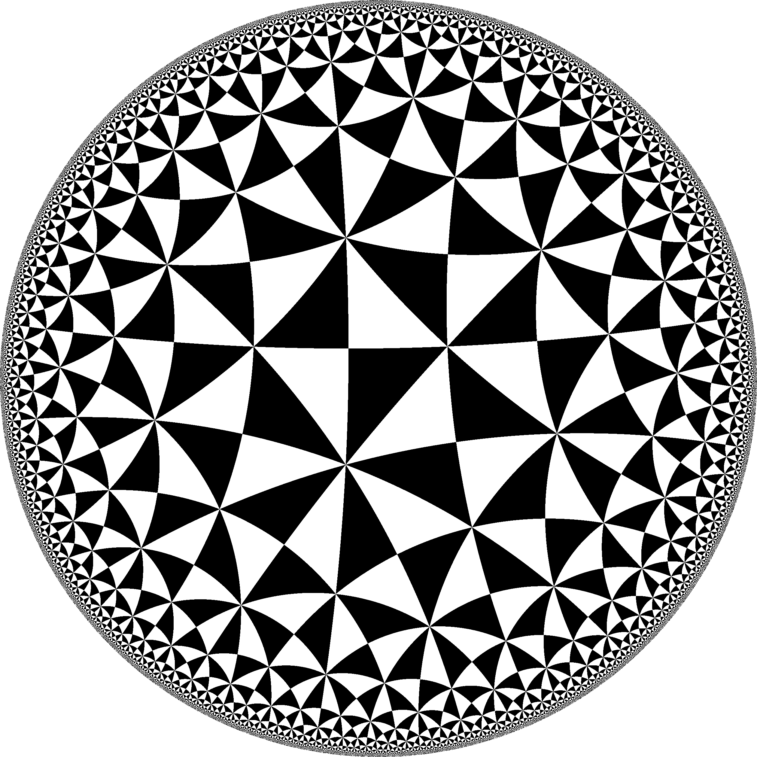 Tiling of the hyperbolic plane by triangles: π/2, π/4, π/5. Generated by Python code at User:Tamfang/programs. Dual